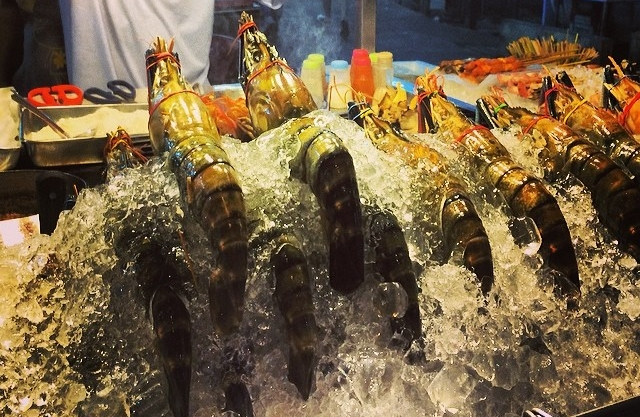 Penaeus monodon, malaysia